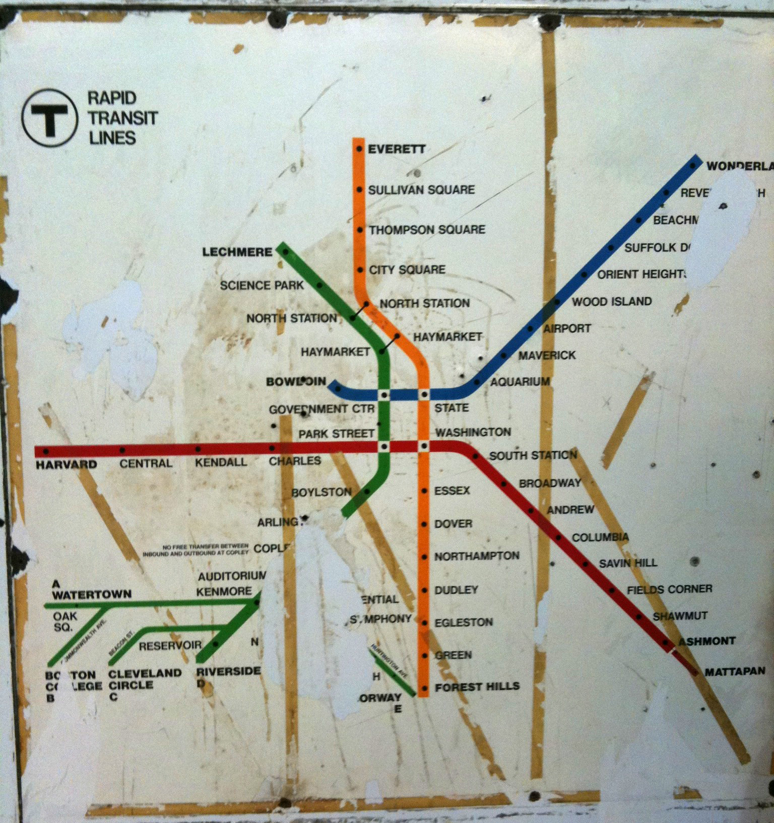 Old MBTA Rapid Transit system map, reflecting network from 1967 (line colors assigned) to 1969 ("A" Branch discontinued).